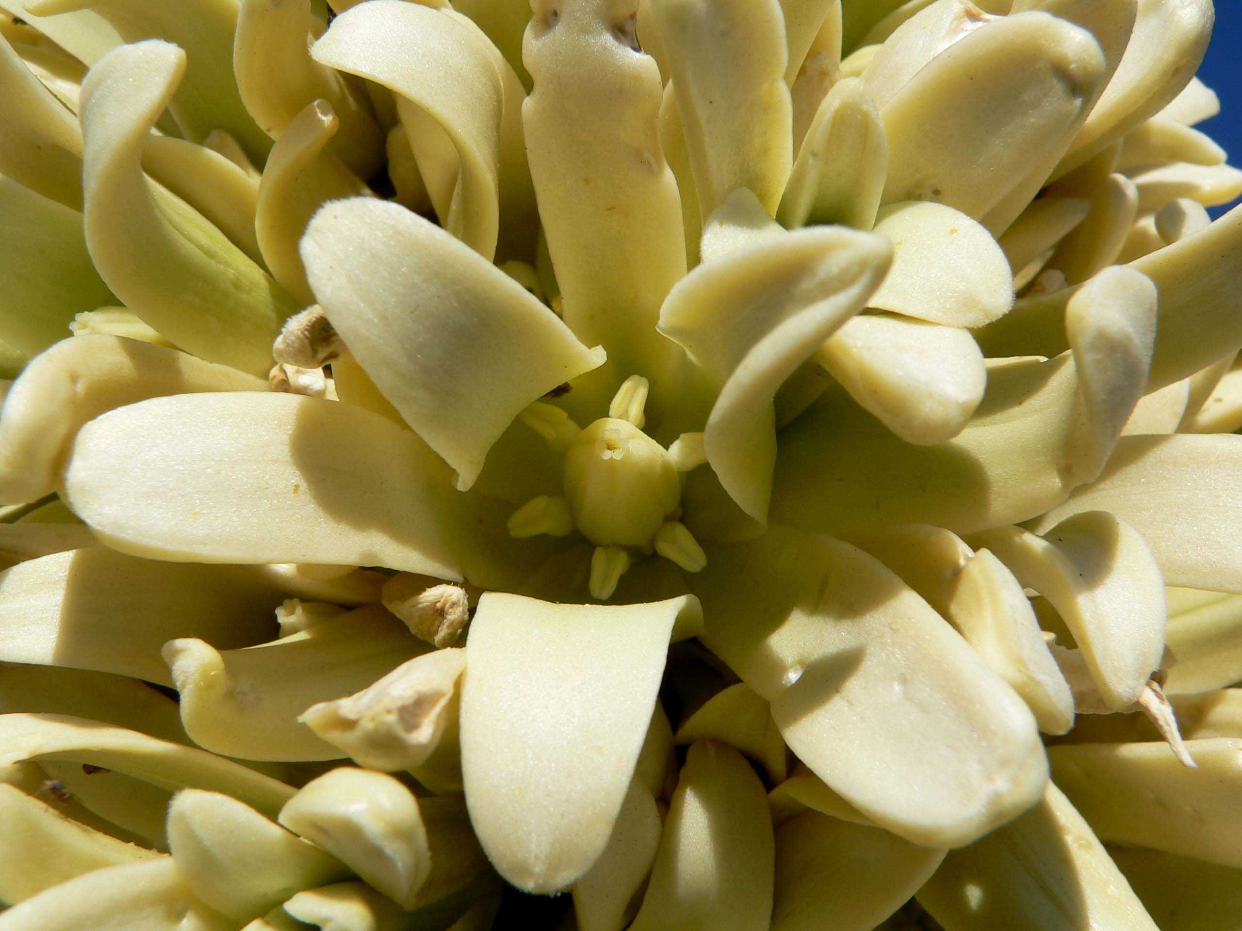 Closeup of Yucca brevifolia flower in Red Rock Canyon